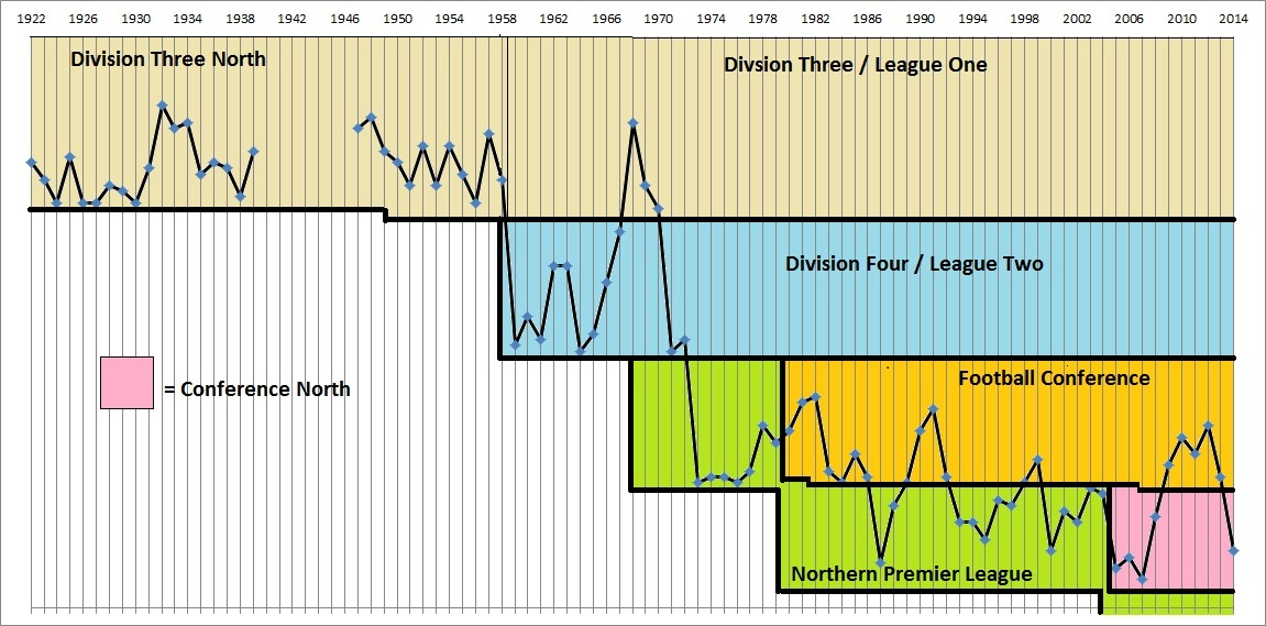 Barrow AFC's league positions since the foundation of Division Three in 1922